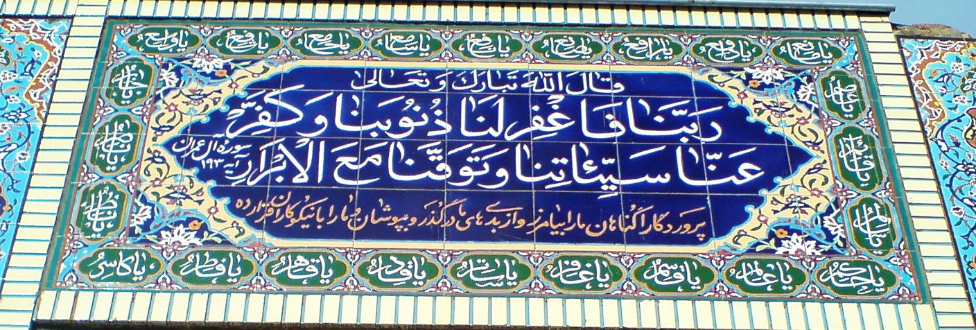 Ali ibn Musa al-Ridha Moaque - Nishapur - tiling